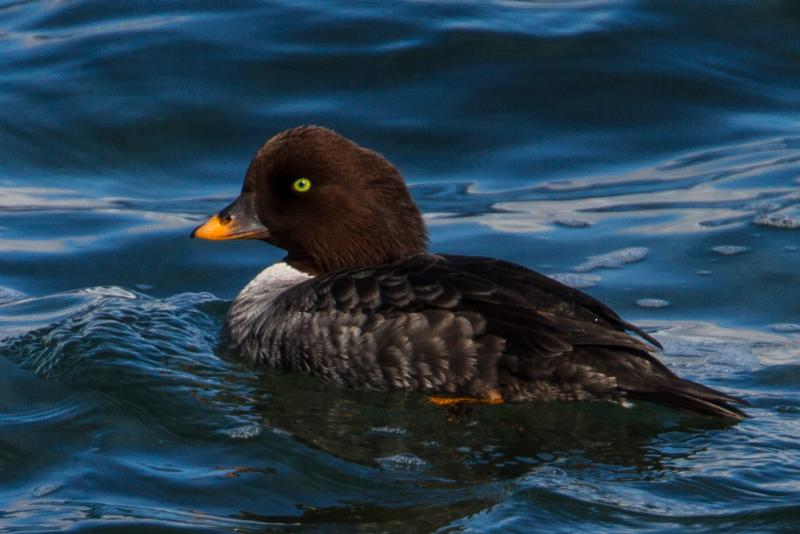 Barrow's Goldeneye Bucephala islandica, female, Iceland